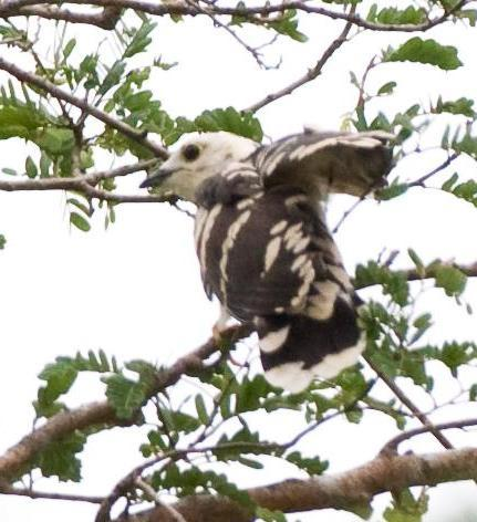 An immature Thick-billed Cuckoo in eastern Tanzania